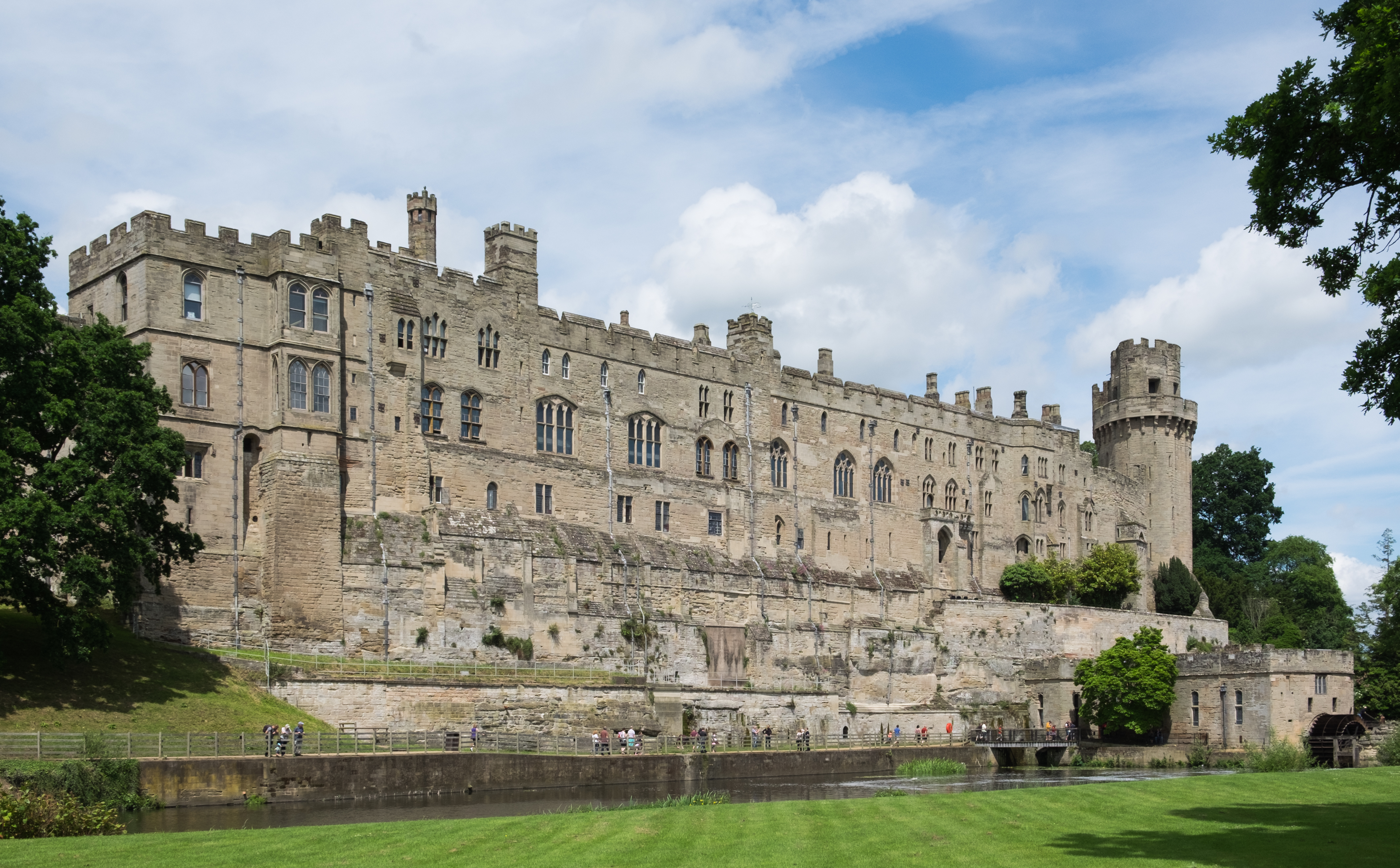 Warwick Castle south-east facade from an island in the River Avon. The castle is a grade I listed building in England.